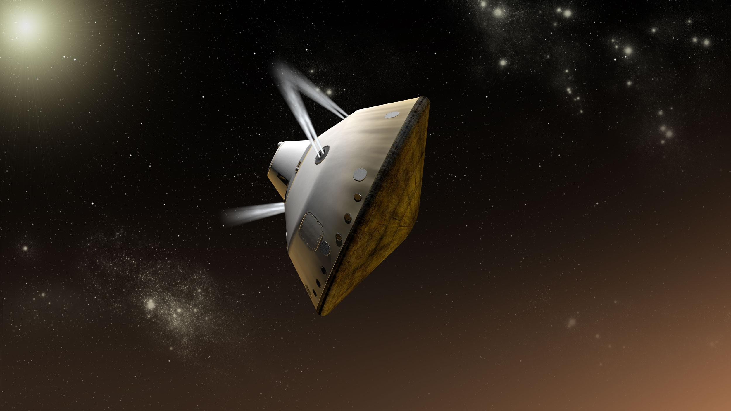 Mars Science Laboratory Guided Entry at Mars, Artist's Concept This artist's concept shows thrusters firing during the entry, descent and landing phase for NASA's Mars Science Laboratory mission to Mars. The entry, descent, and landing (EDL) phase begins when the spacecraft reaches the Martian atmosphere, about 81 miles (131 kilometers) above the surface of the Gale crater landing area, and ends with the rover safe and sound on the surface of Mars. Entry, descent, and landing for the Mars Science Laboratory mission will include a combination of technologies inherited from past NASA Mars missions, as well as exciting new technologies. Instead of the familiar airbag landing of the past Mars missions, Mars Science Laboratory will use a guided entry and a sky crane touchdown system to land the hyper-capable, massive rover. The new entry, descent and landing architecture, with its use of guided entry, will allow for more precision. Where the Mars Exploration Rovers could have landed anywhere within their respective 93-mile by 12-mile (150 by 20 kilometer) landing ellipses, Mars Science Laboratory will land within a12-mile (20-kilometer) ellipse! This high-precision delivery will open up more areas of Mars for exploration and potentially allow scientists to roam "virtually" where they have not been able to before. In the depicted scene, thrusters on the backshell of the spacecraft's aeroshell are firing to adjust the orientation of the spacecraft during the guided entry maneuvers. The rover (Curiosity) and the spacecraft's descent stage are enclosed inside the aeroshell during this passage through the upper atmosphere of Mars.